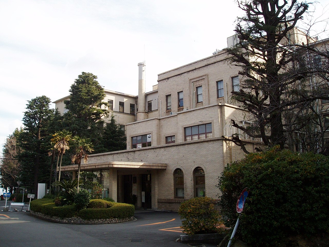 Entrance to Konan Hospital, located in Higashinada-ku, Kobe, Hyogo, Japan.